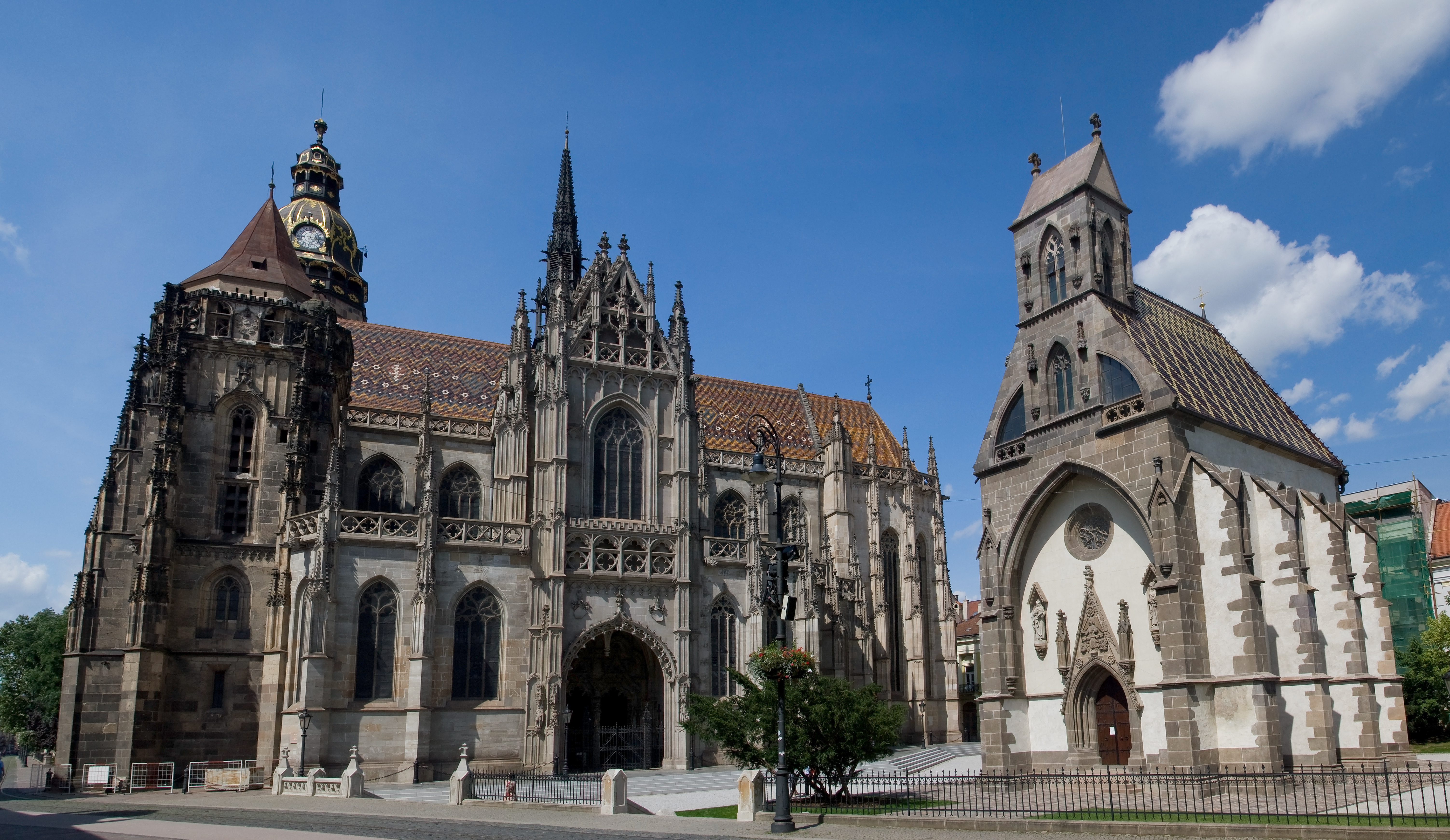 St. Elisabeth Cathedral and St. Michael‘s Chapel, Košice, Slovakia This medium shows the protected monument with the number 802-1117/1 in the Slovak Republic. This medium shows the protected monument with the number 802-1117/2 in the Slovak Republic.